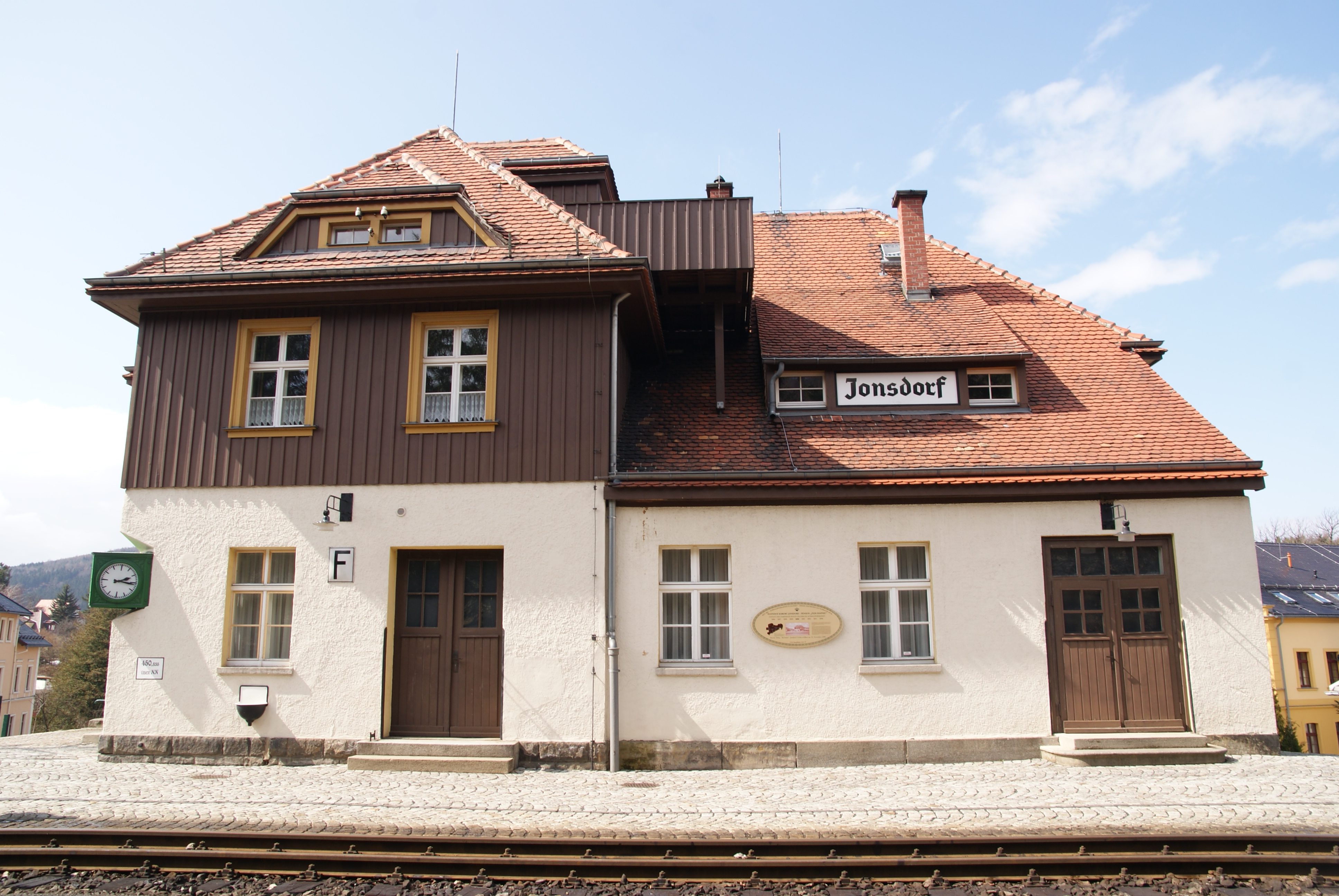 Bahnhof Jonsdorf